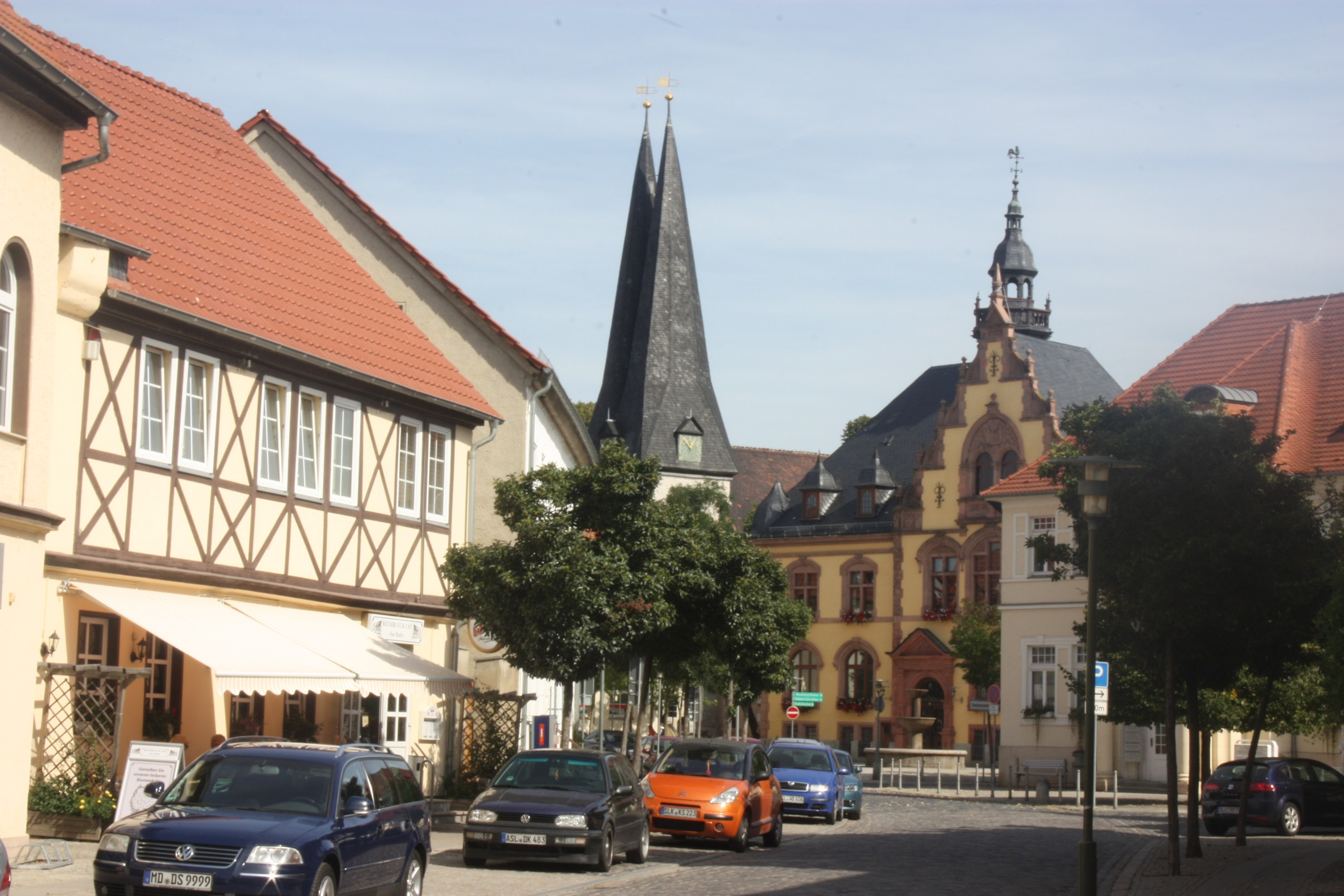 Egeln, the town square This is a photograph of an architectural monument. 11063